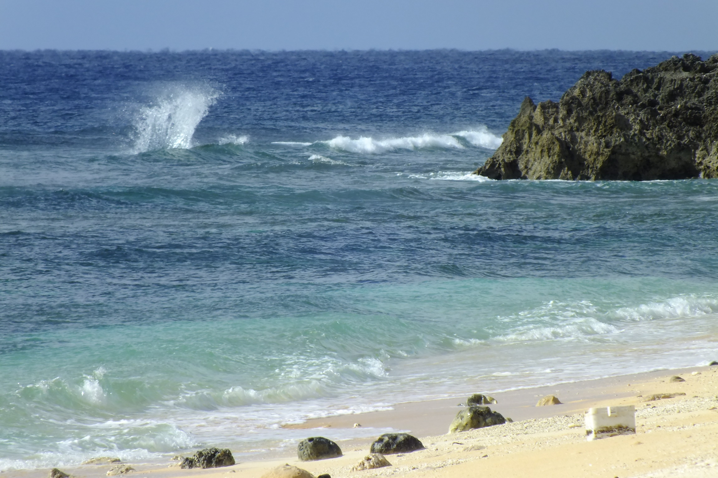 Pemuchi-Beach at Hateruma Island, Okinawa Prefecture, Japan.